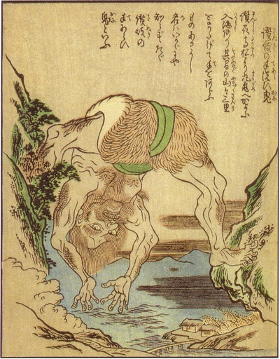 Tearai-oni (手洗鬼) from the Ehon Hyaku monogatari (絵本百物語)